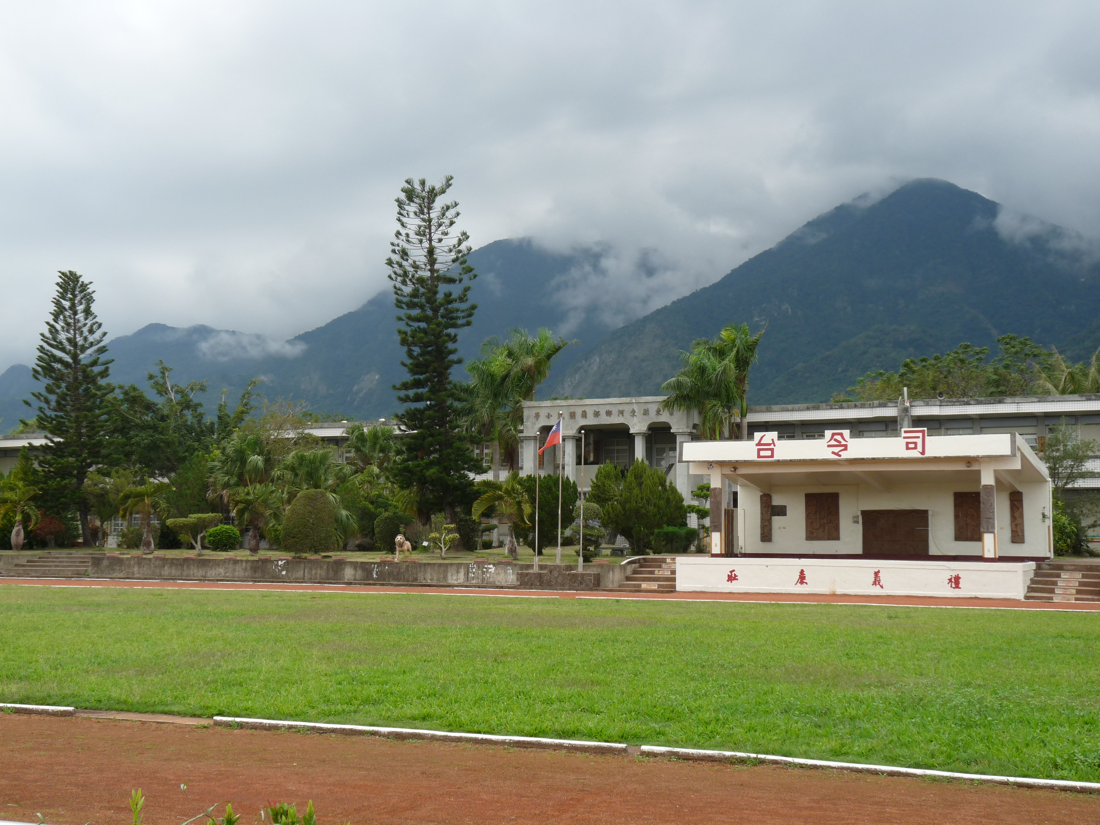 The playground of the Delight-Land Elementary School, Donghe Township, Taitung County.